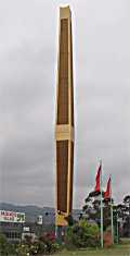 Description: Photo of ' the big cigar', monument to Winston Churchill, in Churchill, Victoria, Australia. Author: Tracy Deichmann Source: Own work, private collection